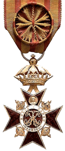 Badge of Officer of the Order of Kapiolani Source: [1] Author: Ianwatts